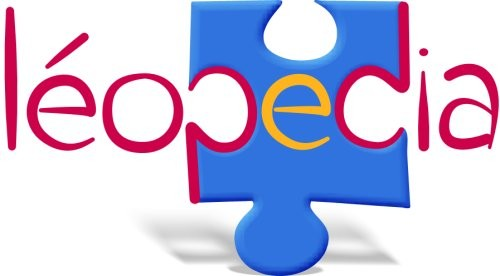 Logo of Léopedia, the associative encyclopedia from the student union of École centrale de Lille